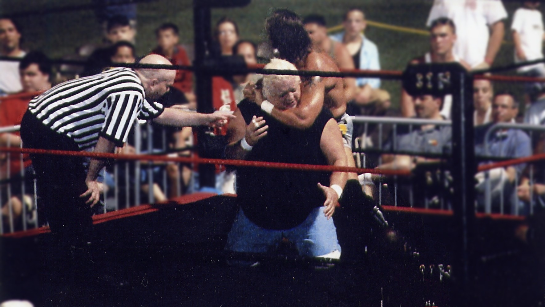 Dusty Rhodes vs. Kid Kash from the Ballpark Brawl in Buffalo, NY 7-15-05